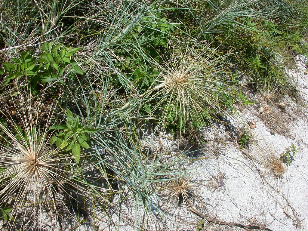 Name Spinifex littoreus （ツキイゲ） Family Poaceae Date;2006,08;seashore,Itoman city, Okinawa prefecture, Japan Author;Keisotyo